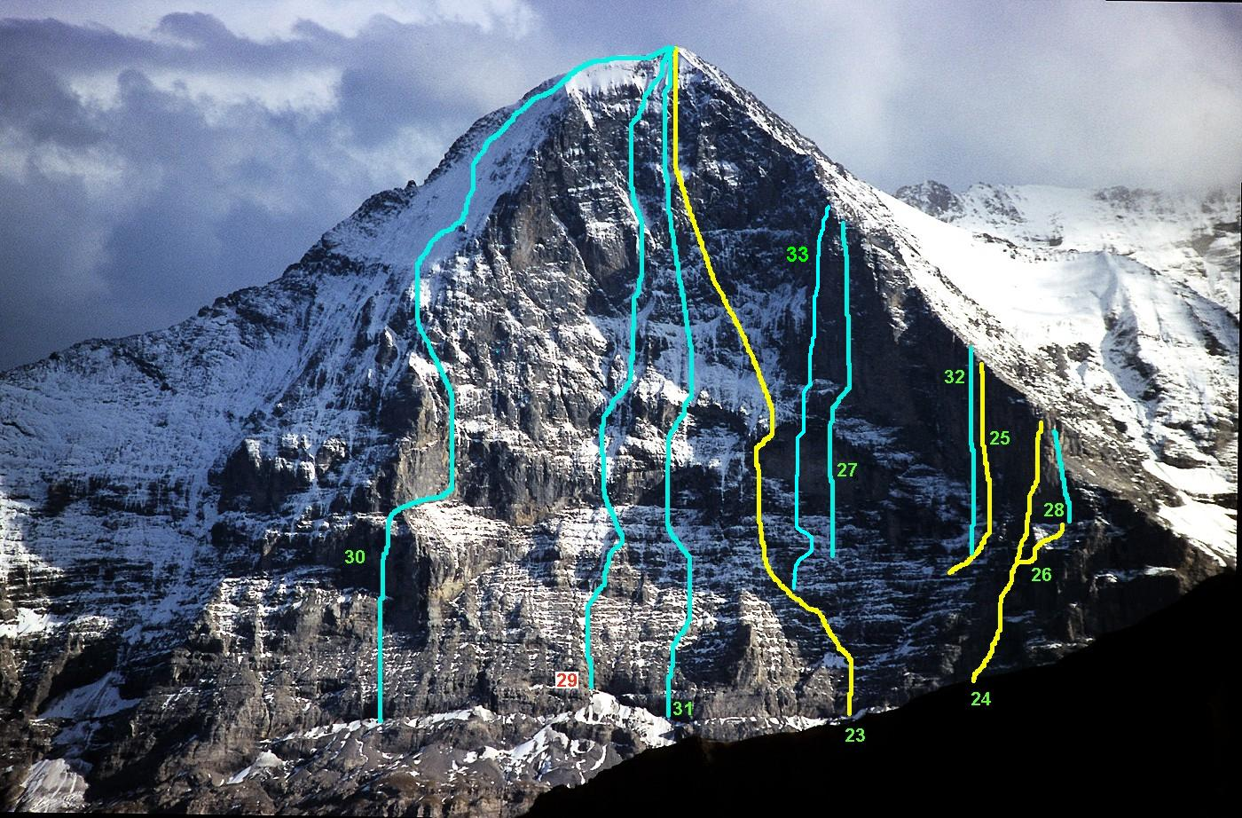 Routes throug the eiger northface from 1991 to 2007